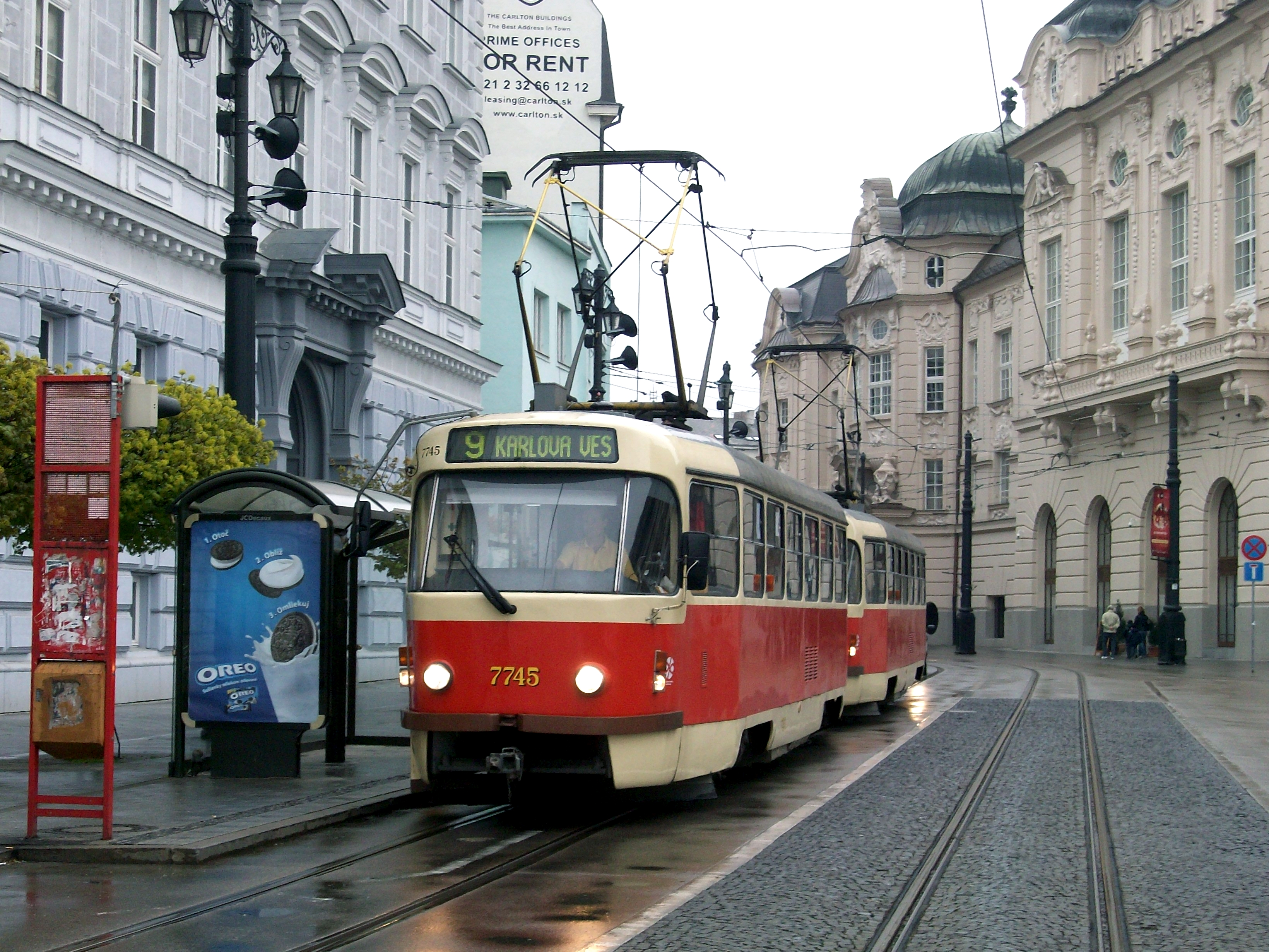 Tatra T3, Bratislava